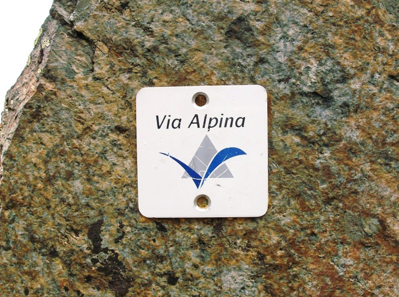 Via Alpina: path marker